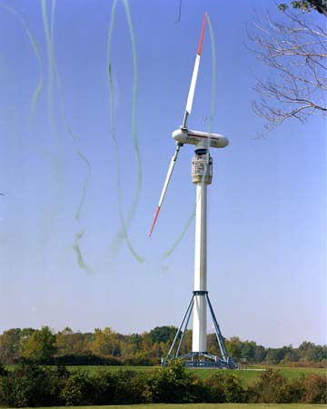 NASA/DOE MOD-0 experimental wind turbine at the Plum Brook station of NASA Glenn Research Center (then the NASA Lewis Research Center), near Sandusky. Smoke test with rotor in downwind configuration.